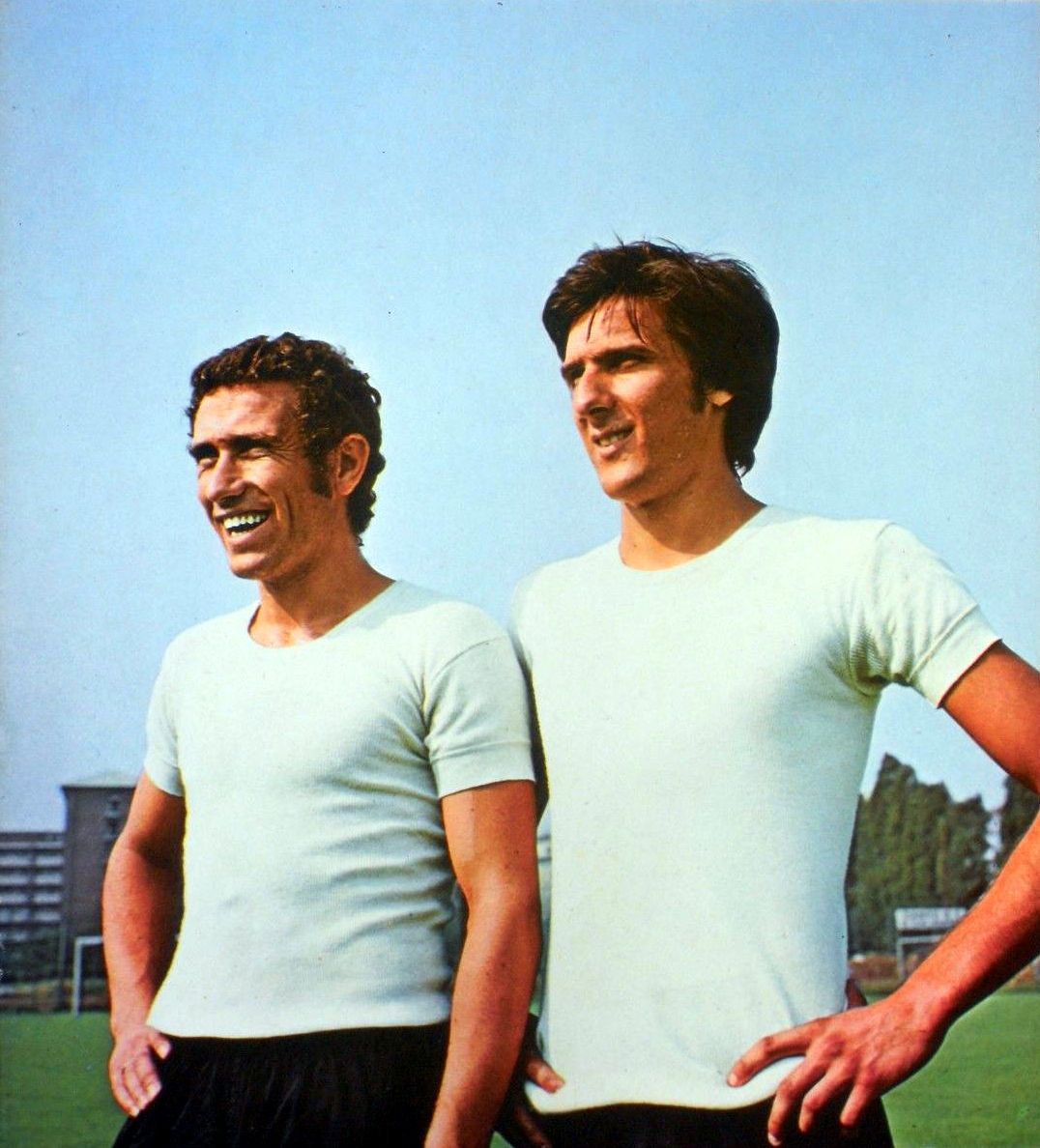 From left to right: the two Italian footballers and new arrivals of Juventus F.C. for the 1974–75 season, the winger Giuseppe “Oscar” Damiani and the sweeper Gaetano Scirea, in training at the “Combi” Ground of Turin (Italy) in the Summer of 1974.